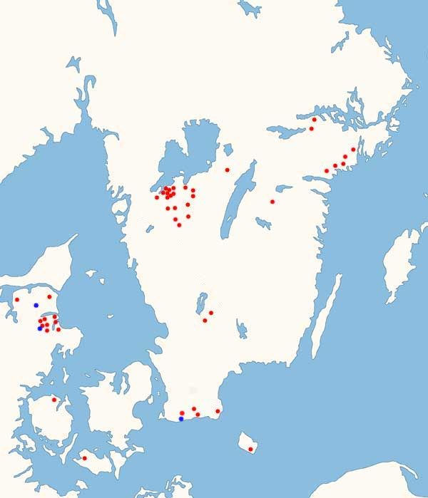 map of occurrences of "thegn" on runestones. Location : Center : Sweden, South : Danemark, North West : Norway Based on Sawyer (2000) "The Viking-Age Rune-Stones", page 105